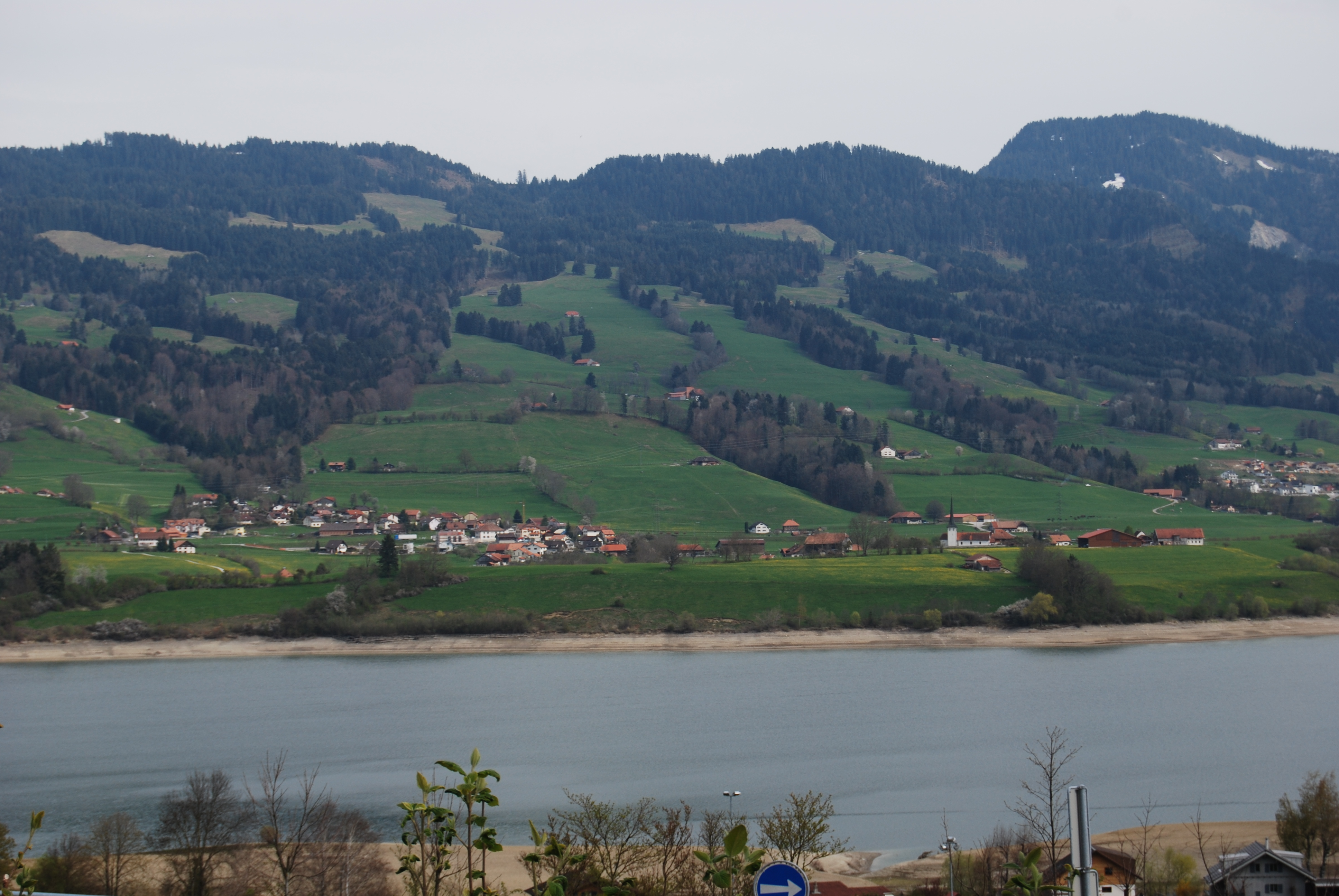 Hauteville and Lake of Gruère seen from the rest area La Gruyère, canton of Fribourg, Switzerland